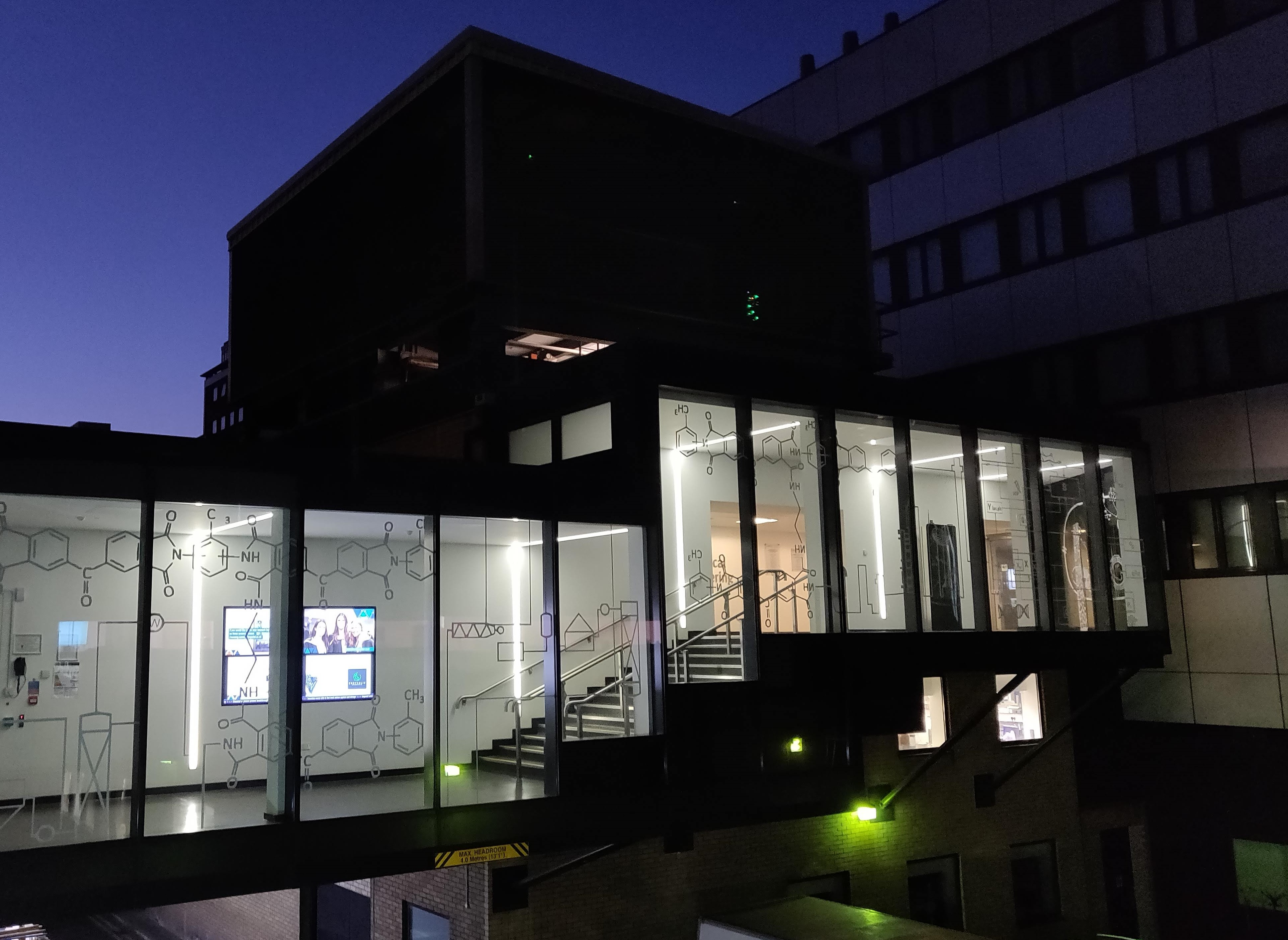 The entrance to the ACEX building from the main walkway at Imperial College London, as seen in the early evening in winter. It is home to the Departments of Chemical Engineering and Aeronautical Engineering